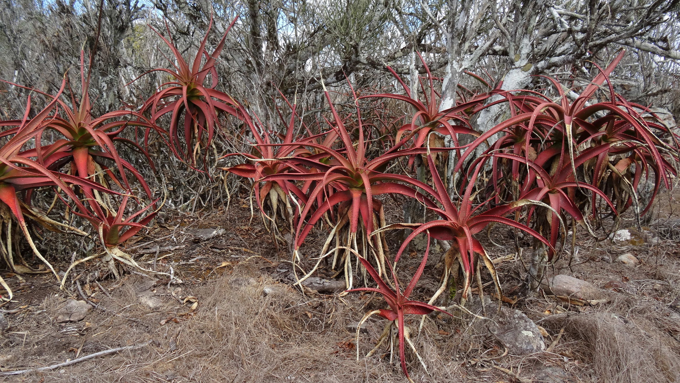 Aloe mawii - summit of Mt Yokolo